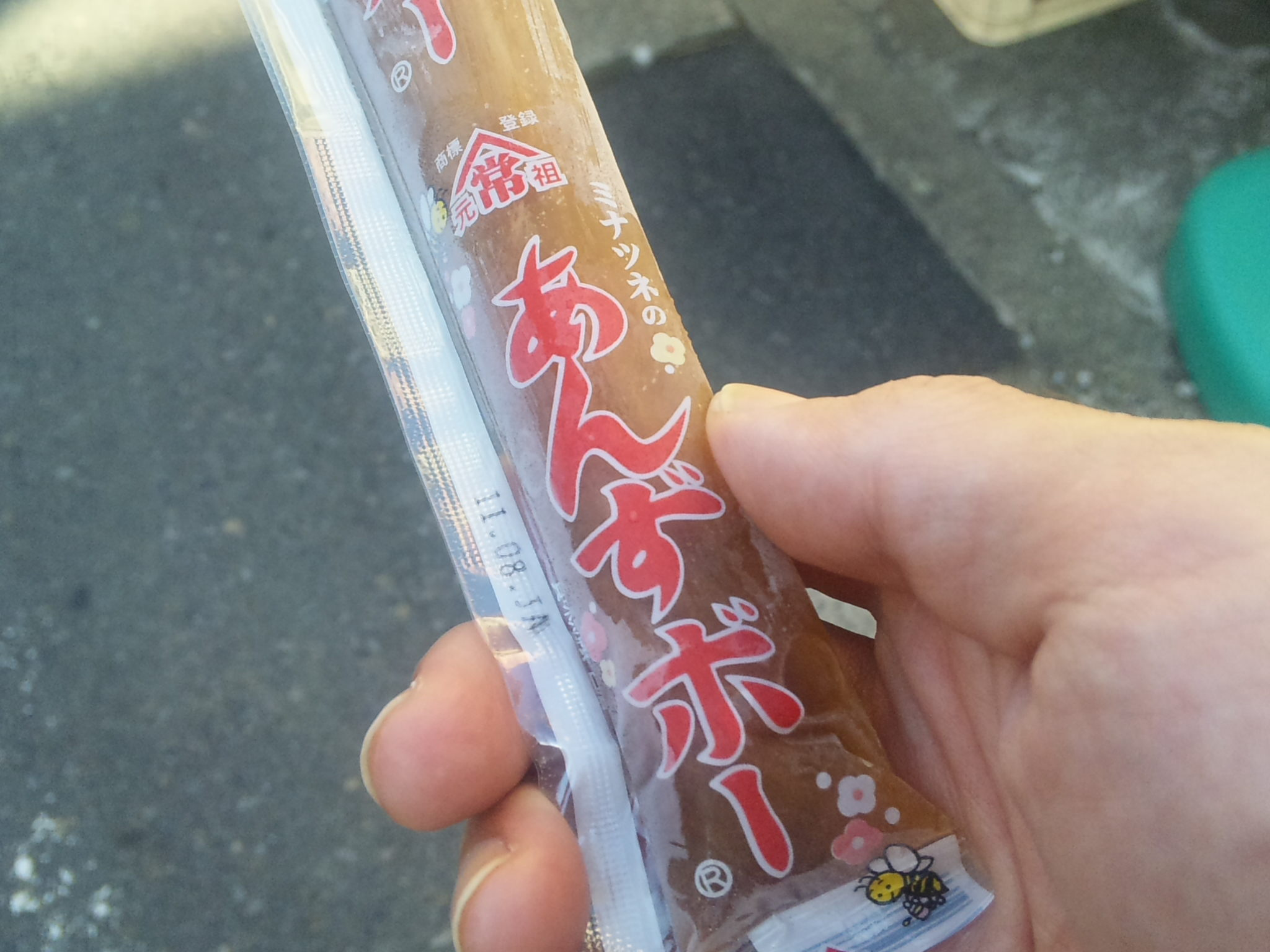 untitled